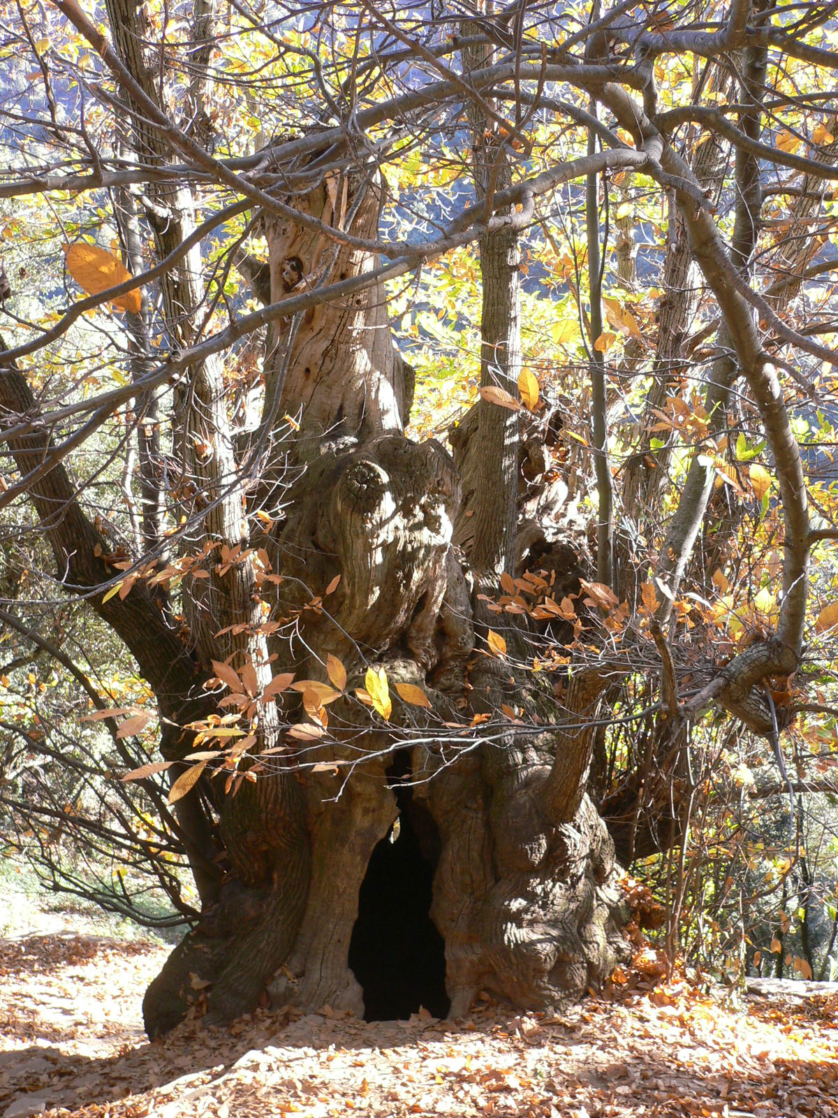 Species: Castanea sativa. Dimensions (in meters) Height: 15 m Barrel vault (1.3 m): 11,70 m Crown (diameter): 17.5 m